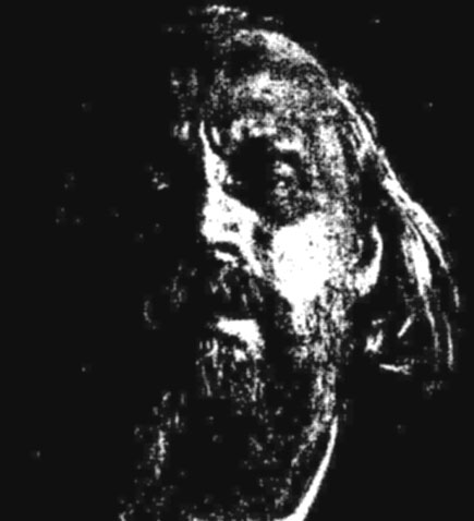 Bishop Arseniy (Zhadanovsky) before being murdered by NKVD